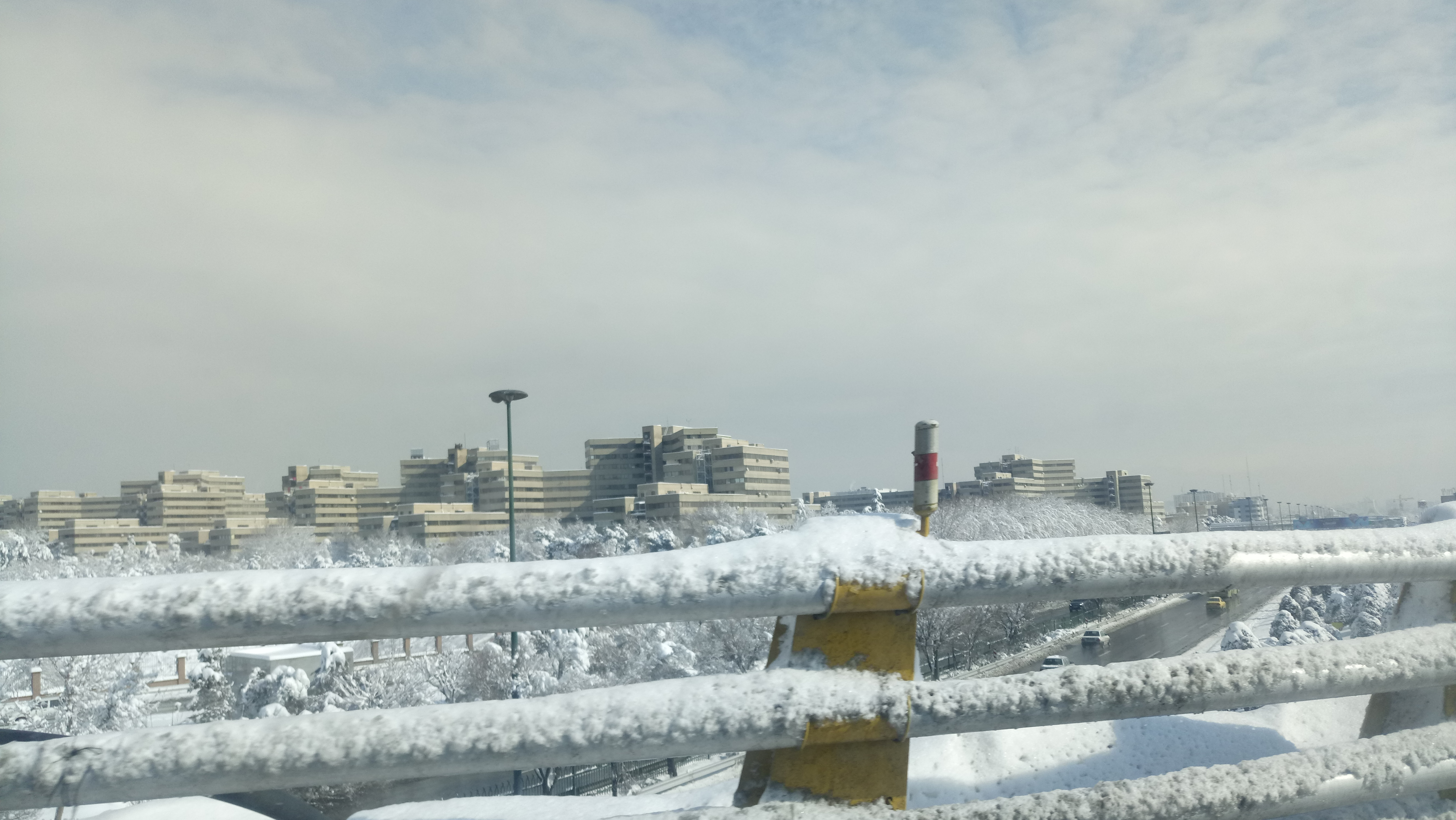 Tehran's Ekbatan Town in snow